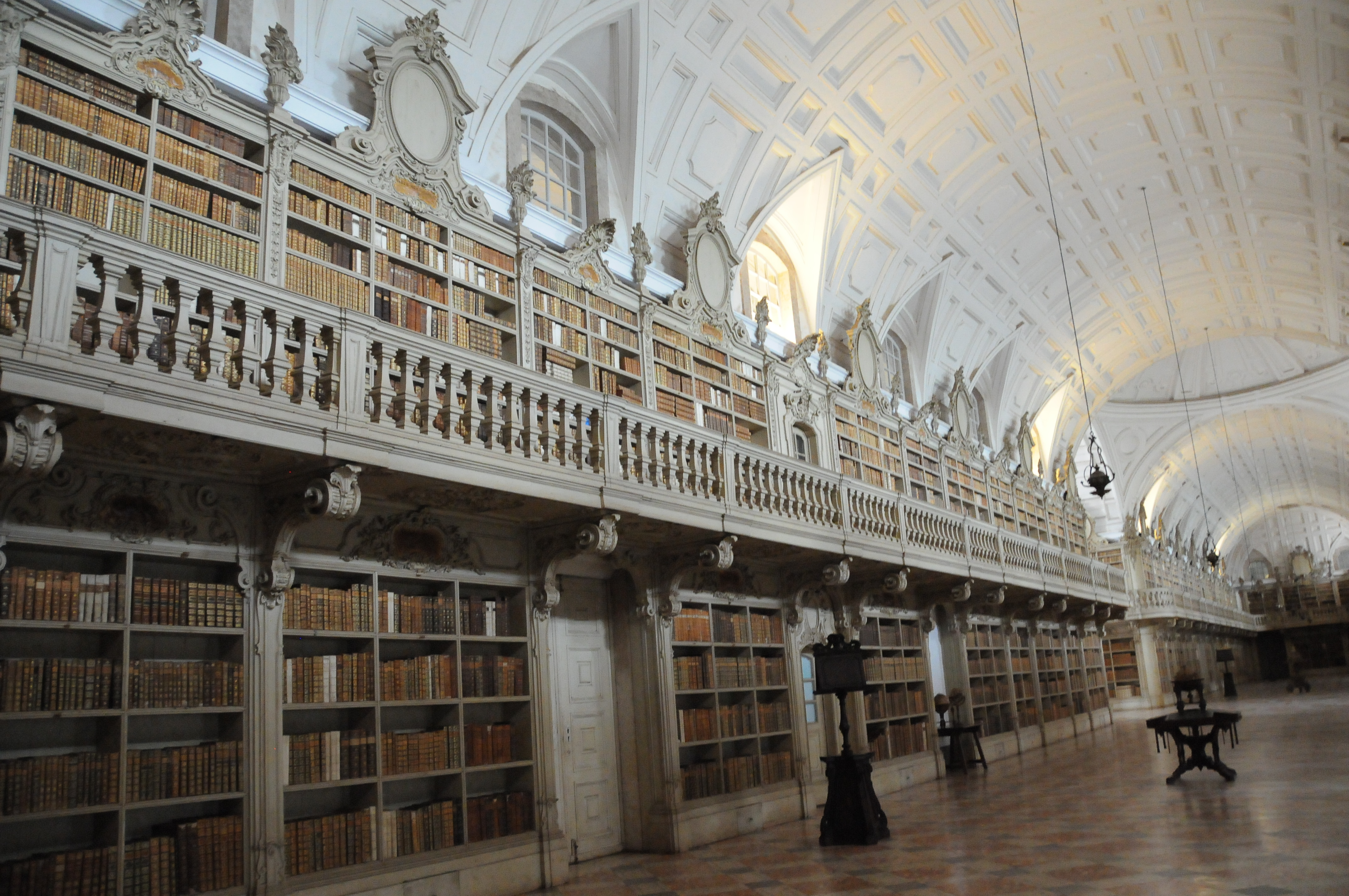 Library of the Convent of Mafra